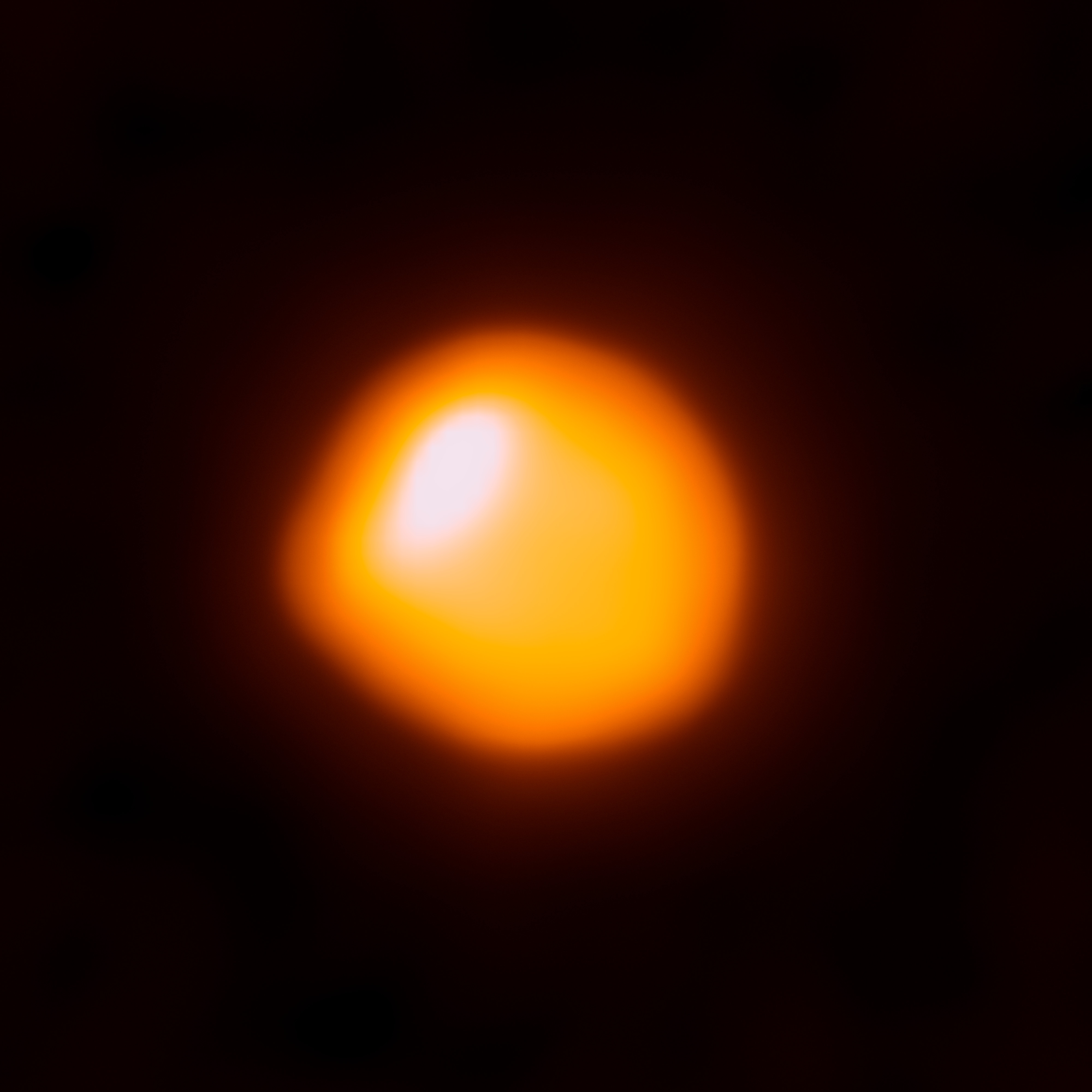 This orange blob shows the nearby star Betelgeuse, as seen by the Atacama Large Millimeter/submillimeter Array (ALMA). This is the first time that ALMA has ever observed the surface of a star and this first attempt has resulted in the highest-resolution image of Betelgeuse available. Betelgeuse is one of the largest stars currently known — with a radius around 1400 times larger than the Sun’s in the millimeter continuum. About 600 light-years away in the constellation of Orion (The Hunter), the red supergiant burns brightly, causing it to have only a short life expectancy. The star is just about eight million years old, but is already on the verge of becoming a supernova. When that happens, the resulting explosion will be visible from Earth, even in broad daylight. The star has been observed in many other wavelengths, particularly in the visible, infrared, and ultraviolet. Using ESO’s Very Large Telescope astronomers discovered a vast plume of gas almost as large as our Solar System. Astronomers have also found a gigantic bubble that boils away on Betelgeuse’s surface. These features help to explain how the star is shedding gas and dust at tremendous rates (eso0927, eso1121). In this picture, ALMA observes the hot gas of the photosphere of Betelgeuse at sub-millimeter wavelengths — where localised increased temperatures explain why it is not symmetric. Scientifically, ALMA can help us to understand the extended atmospheres of these hot, blazing stars. Links: Size comparison: Betelgeuse and the Sun